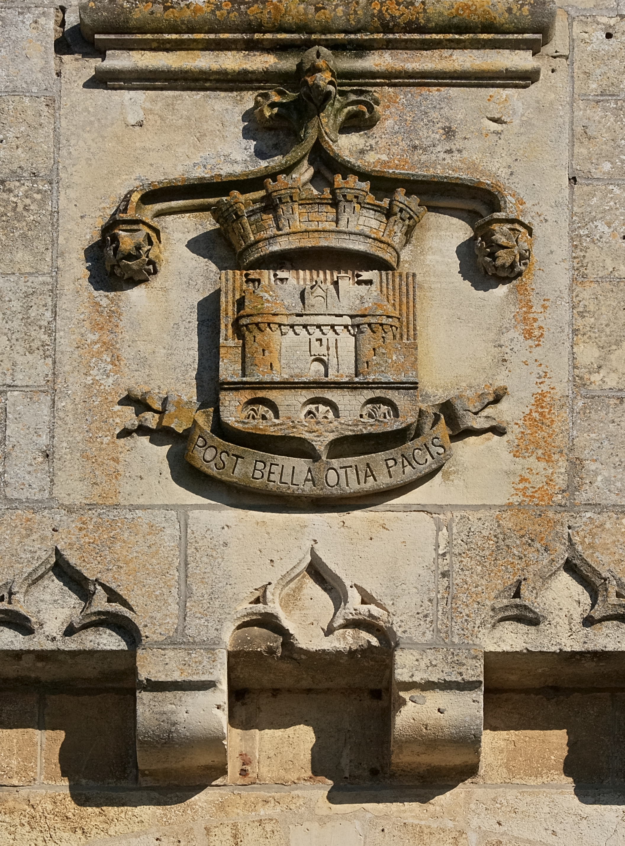 COA and motto (mid-nineteenth century) of the town, Jonzac, Charente-Maritime, France. (The motto means : After the wars, the leisures of peace.)